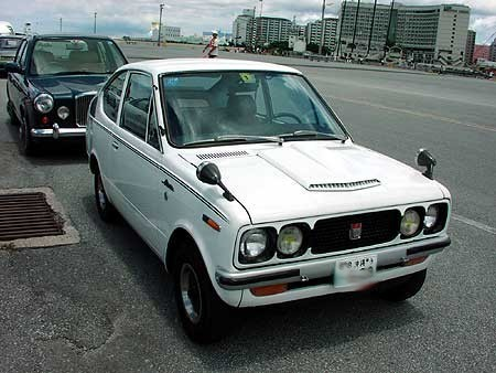 729 Car(Okinawan left-hand drive vehicle until July 29 1978)